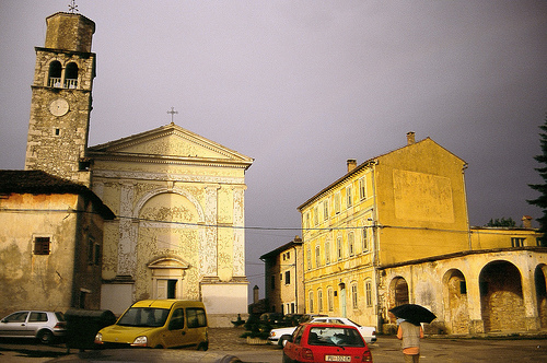 Vizinada